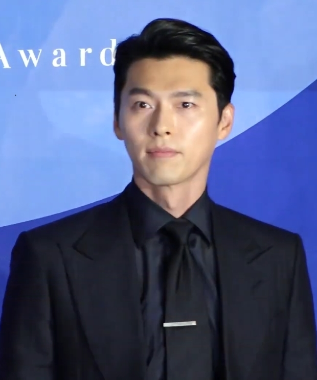 South Korean actor Hyun Bin at the 55th Baeksang Arts Awards in 2019.